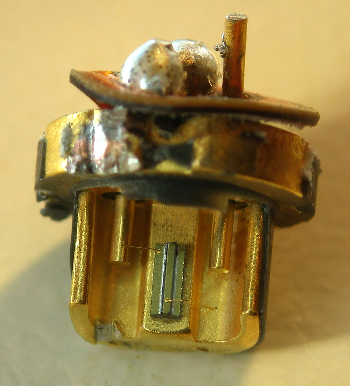 The burning laser diode from a 20x Lightscribe DVD burner. It's more than 250mW (16x DVD burners are 250mW), but I'm not sure how much more. I hear the lightscribe lasers are quite powerful. As you can see, it put up a hell of a fight before coming out the heatsink I found it in. It's a miracle I didn't break those itty bitty little gold wires. It needed to come out of its heatsink, so that I could transplant it into the heatsink/lens assembly from a cheap 5mW laser. I'm building a little current regulator for it, hopefully to avoid burning it out like the last one. :P This picture is actually a composite of a picture taken with the flash, and one without. The lighting is much better this way.